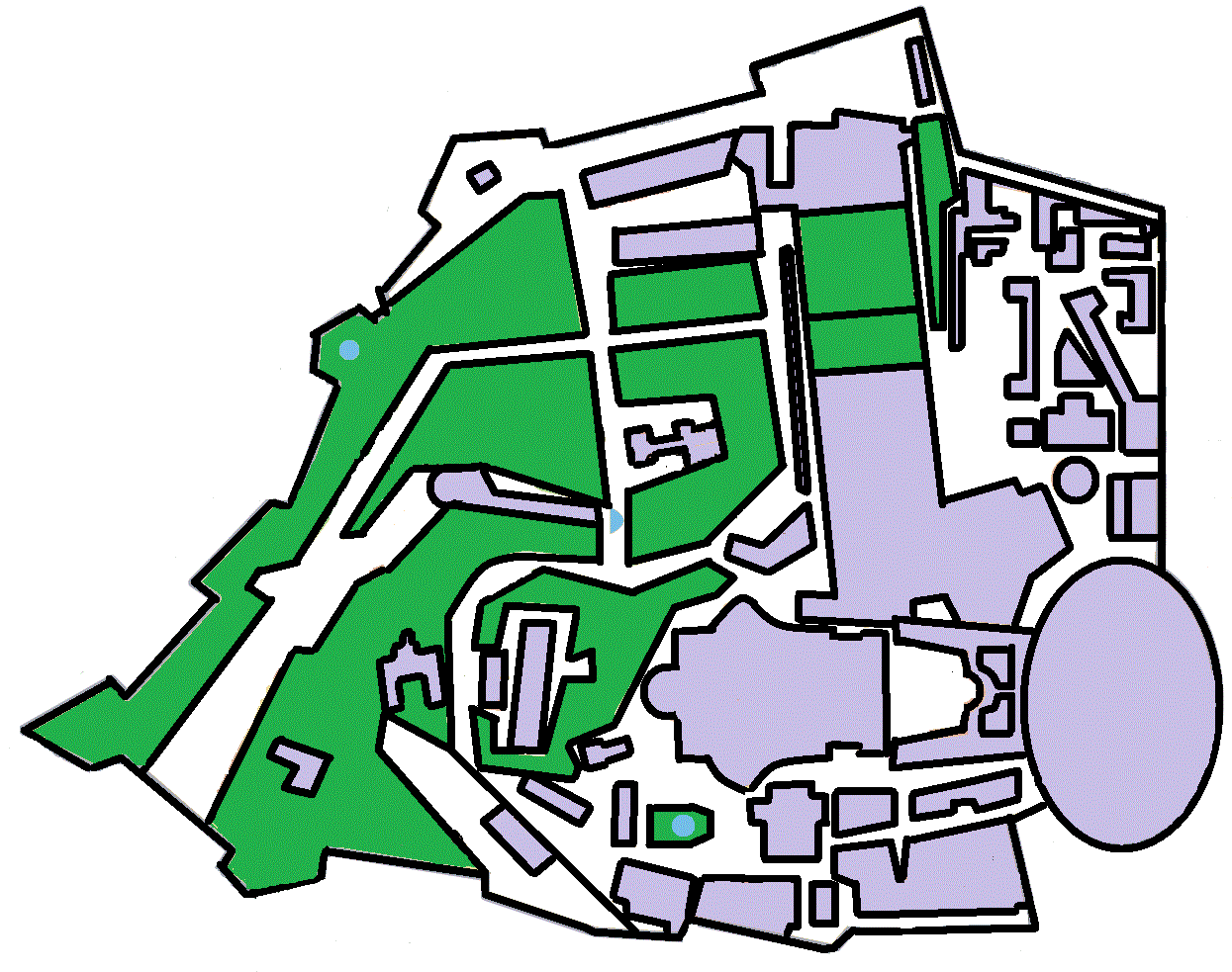 This is the location map for Vatican City